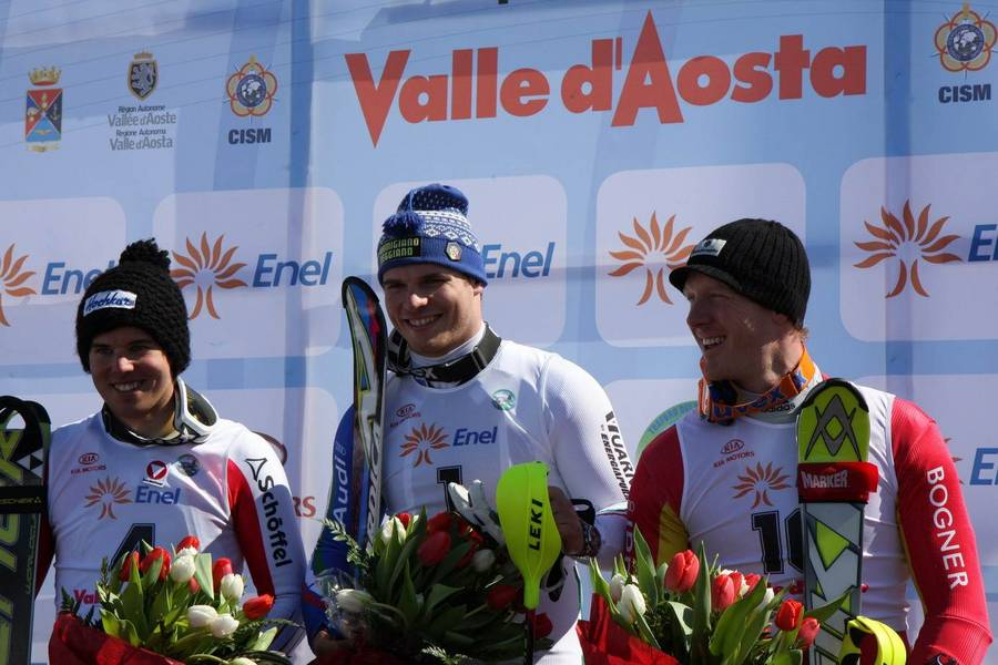 Men's slalom podium at the 2010 Winter Military World Games